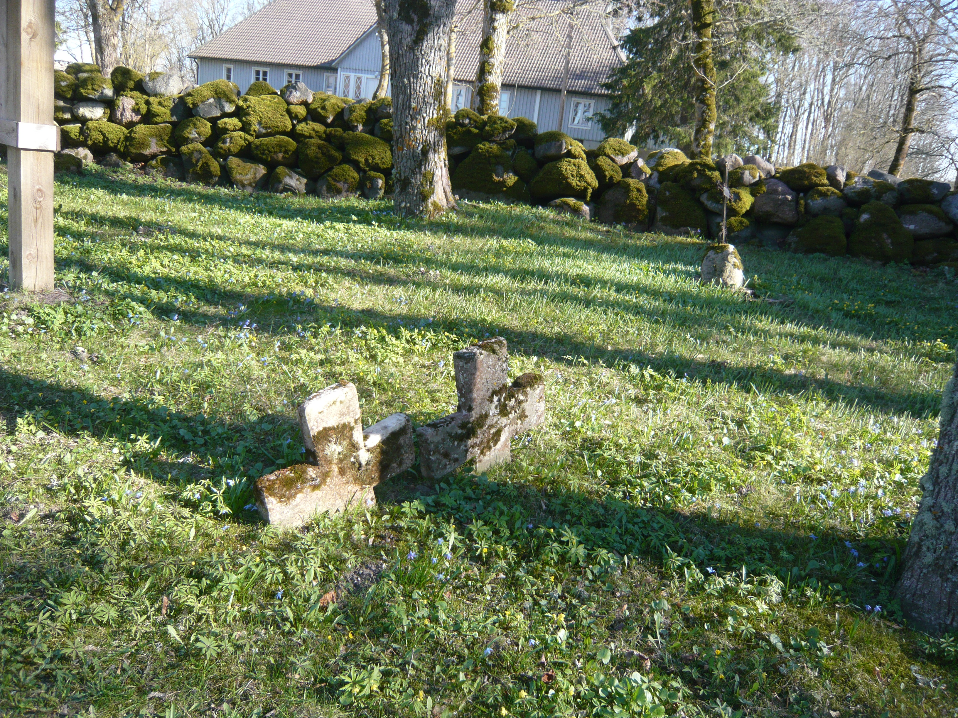 Noarootsi Cemetery